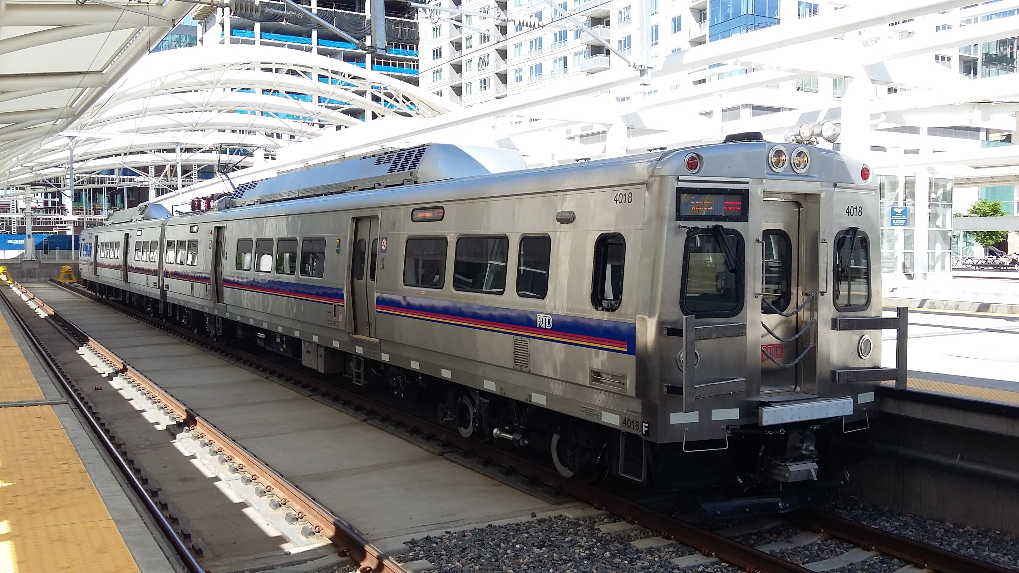 RTD No. 4018 A Line train on Track 2 at Union Station Train Hall, Denver, CO